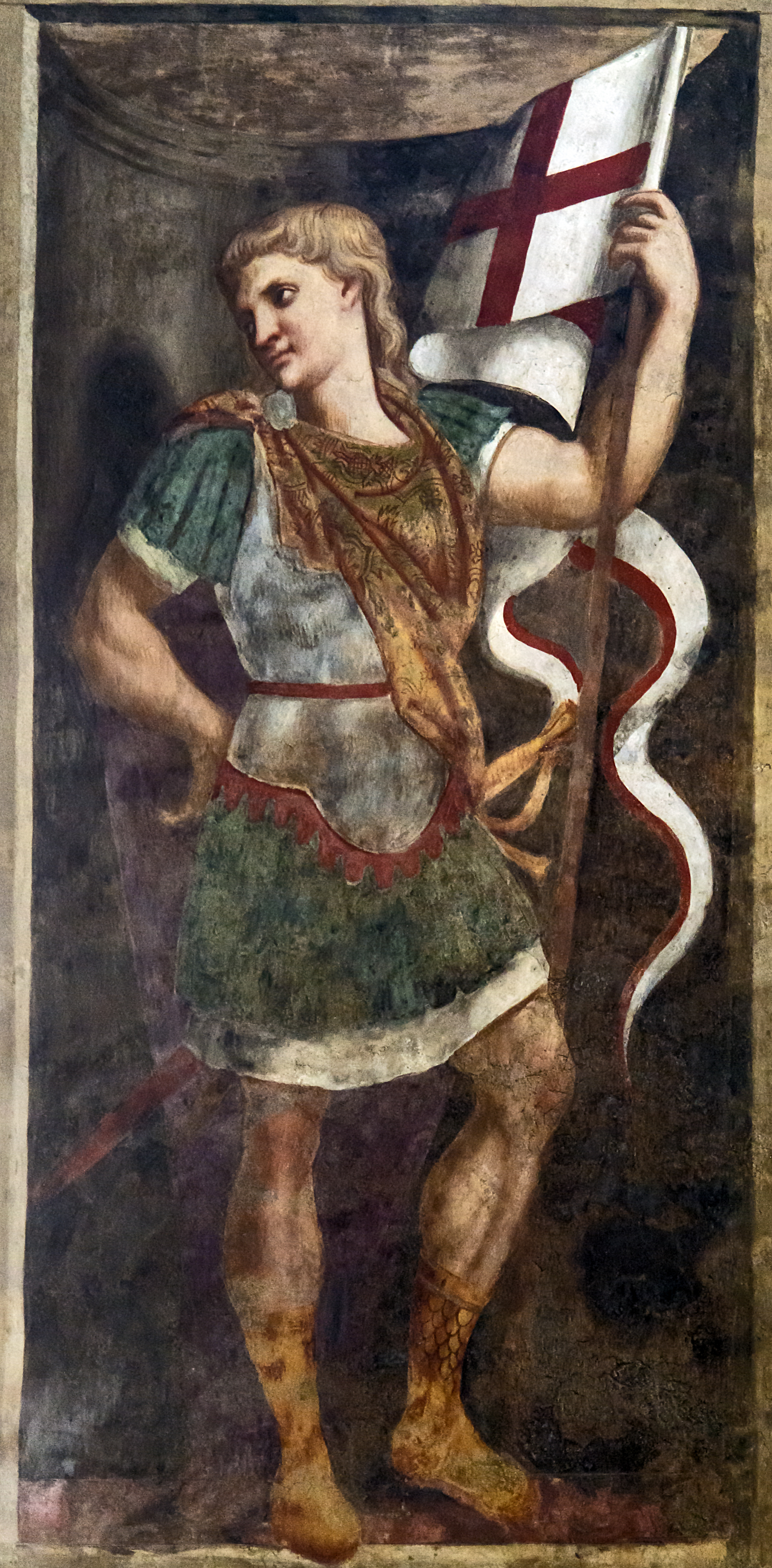 Treviso Cathedral - Annunciation chapel or Malchiostro - Fresco by Pomponio Amalteo - Liberalis of Treviso